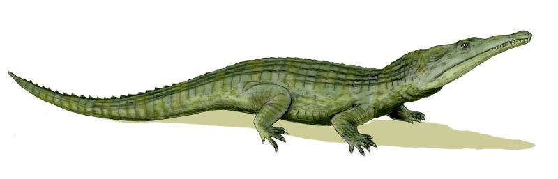 Proterochampsa barrionuevoi, an archosaur from the Late Triassic of Argentina, pencil drawing